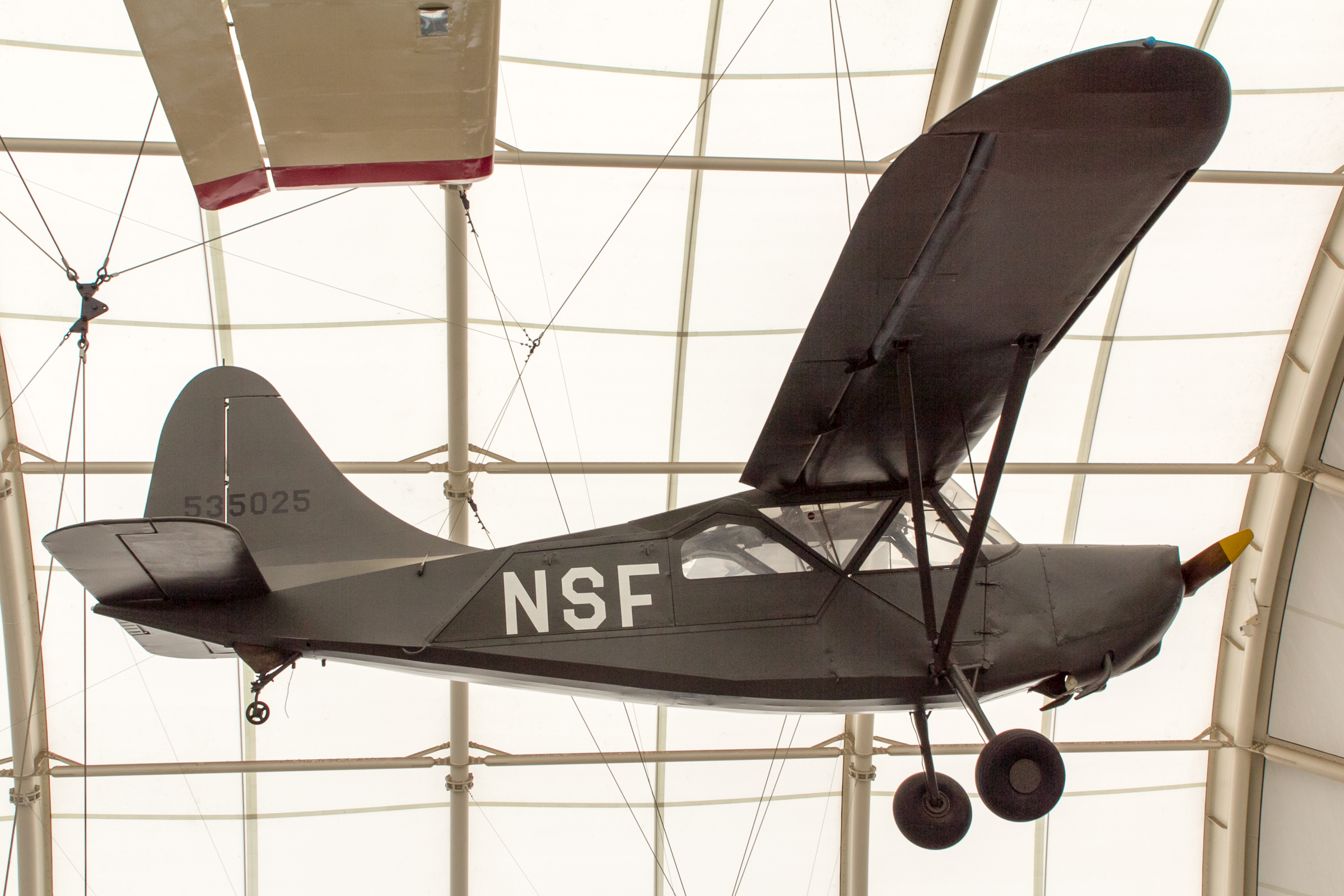 L-5 Sentinel at the Tokorozawa Aviation Museum